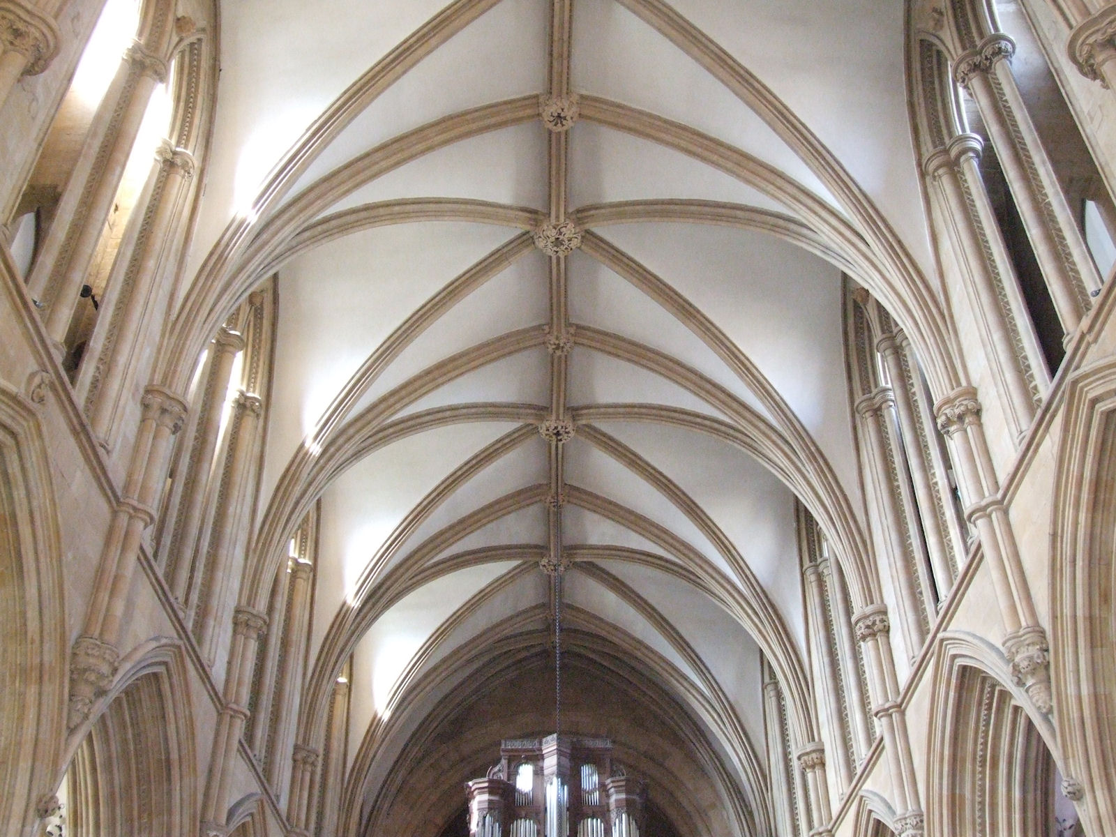 Gothic vault at Southwell Minster, England